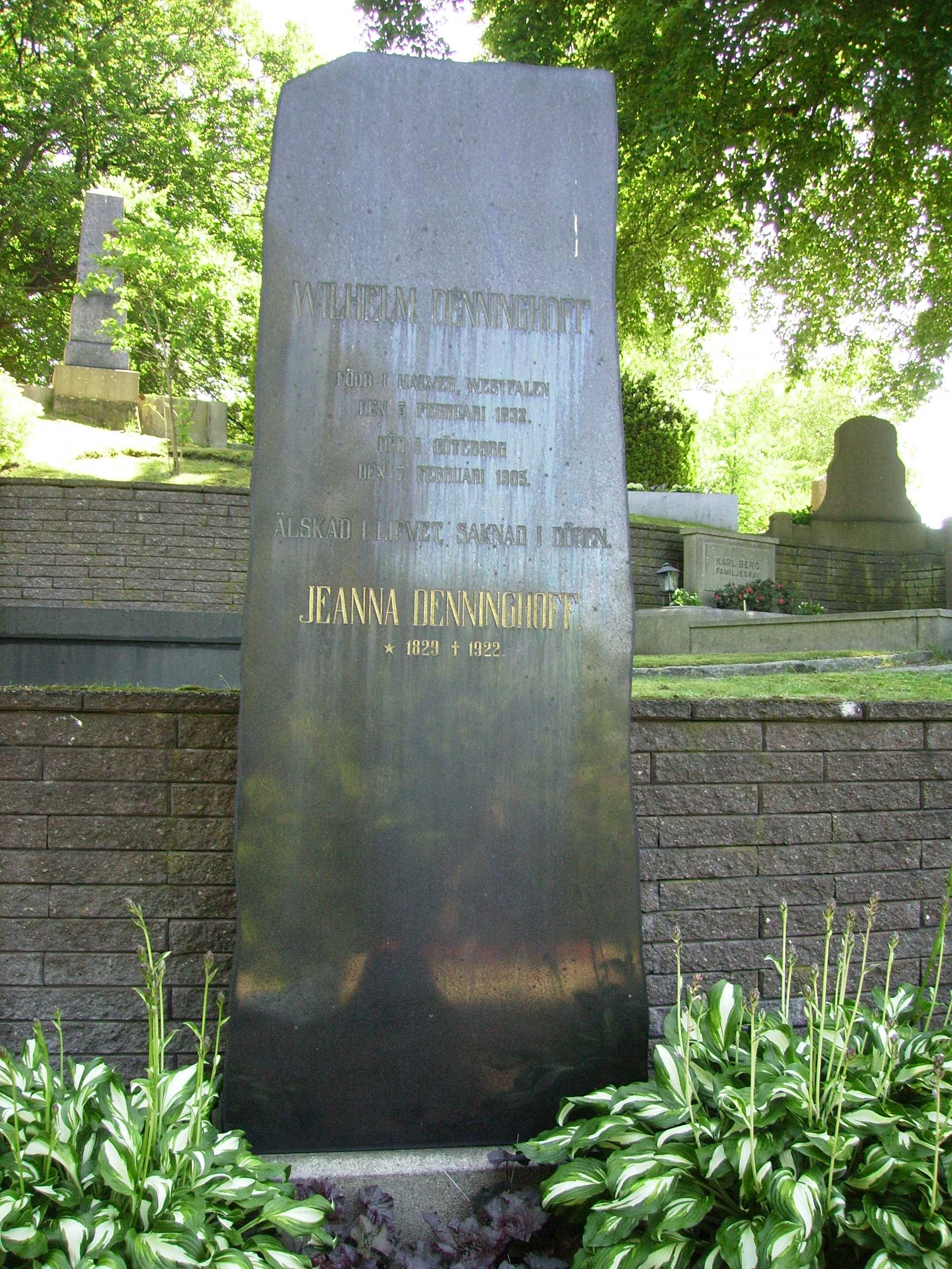 Picture of Wilhelm Denninghoff's grave at Östra kyrkogården in Gothenburg